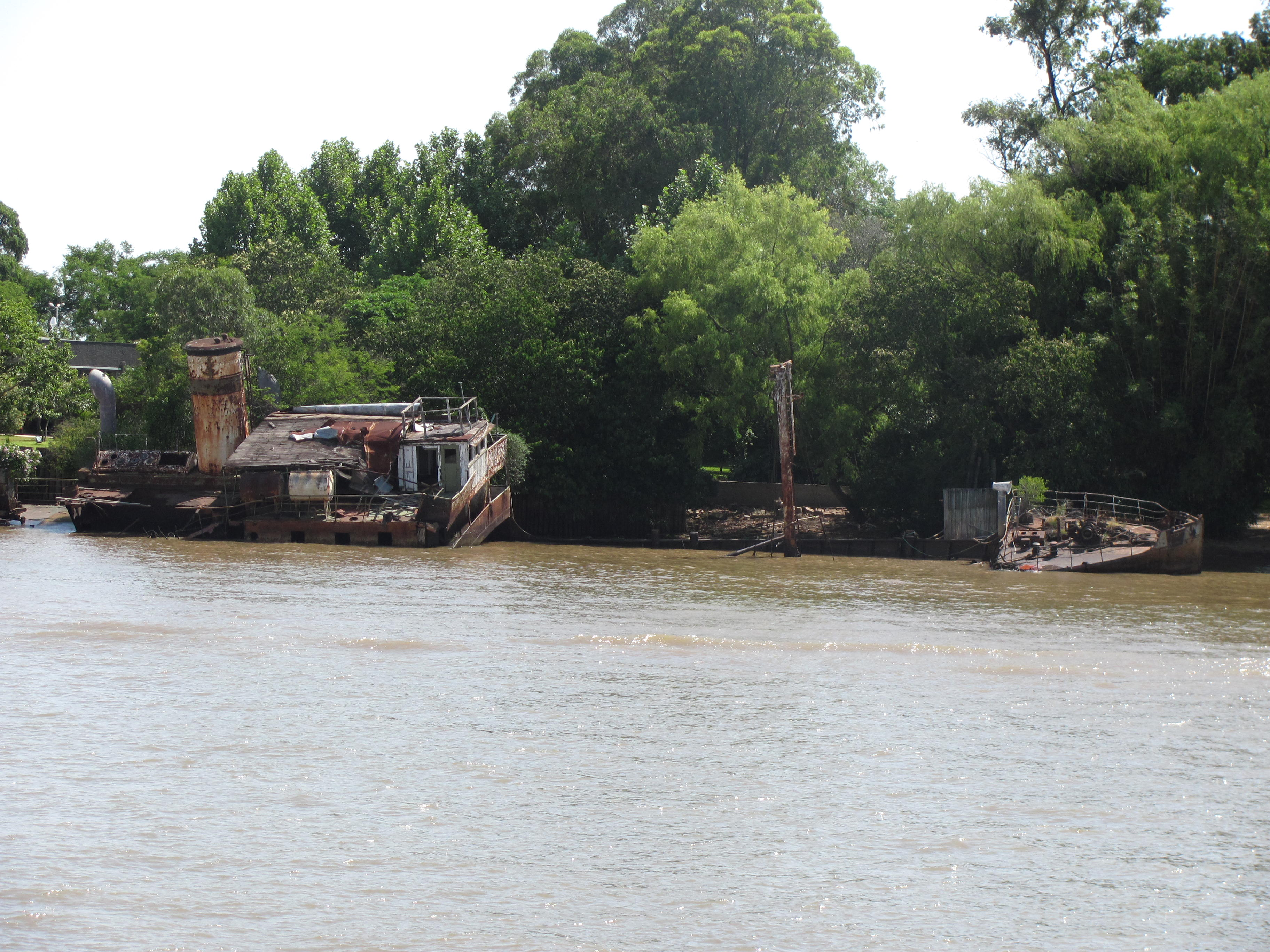 Shipwreck in Rio Jacuí